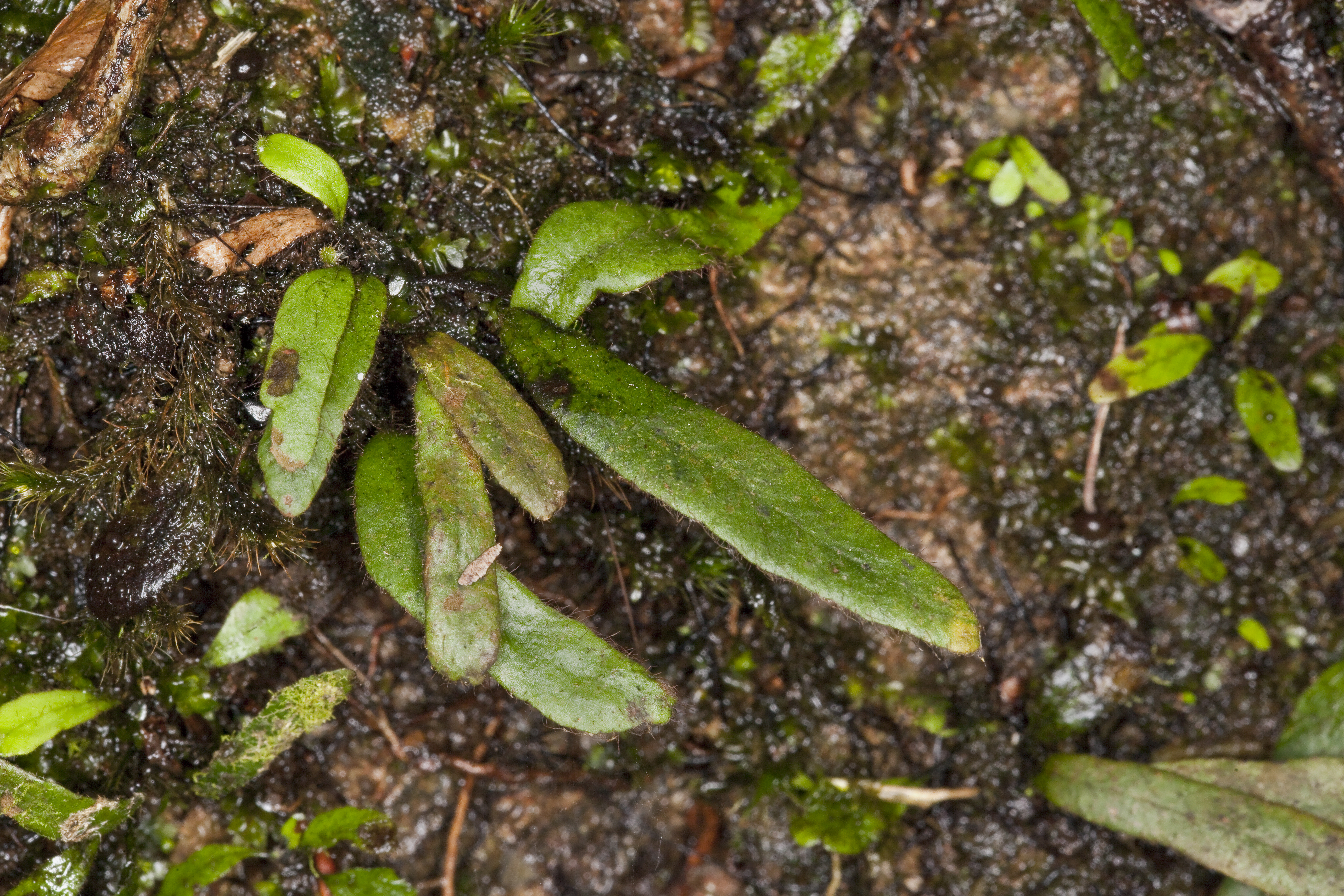 Grammitis nudicarpa. On a moist shaded rocky bank on the east side of Mount Lidgbird at about 1,300 feet elevation, Lord Howe Island. This is the rarest and smallest of the three Grammitids on Lord Howe, and has shorter hairs than the epiphytic G. pulchella (synonym: G. wattsii) on the summit of Mount Gower.